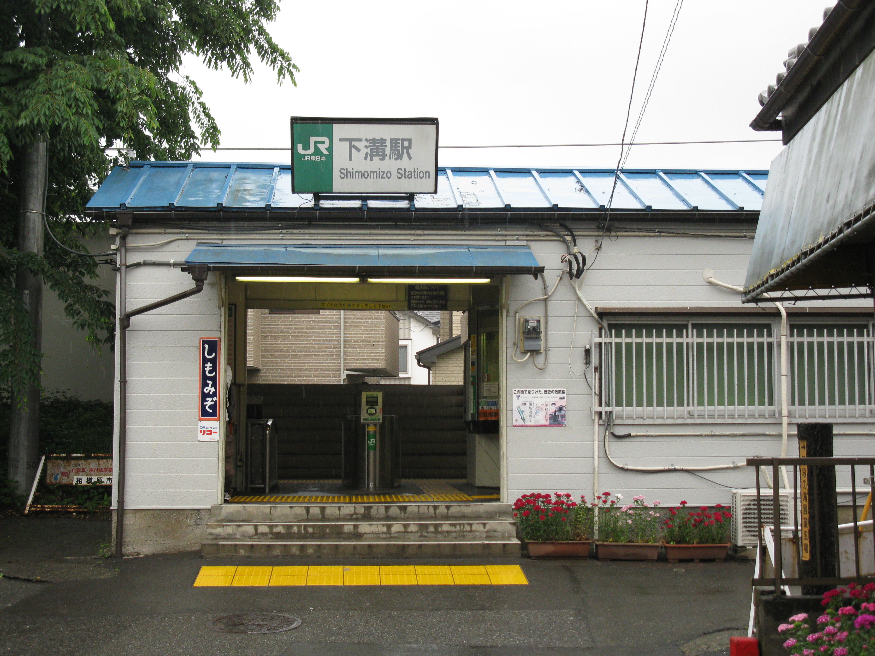 The entrance to Shimomizo Station on the East Japan Railway(JR East) Sagami Line